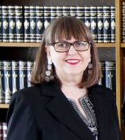 Jónína Leósdóttir, while meeting the president of Slovenia, Danilo Türk.